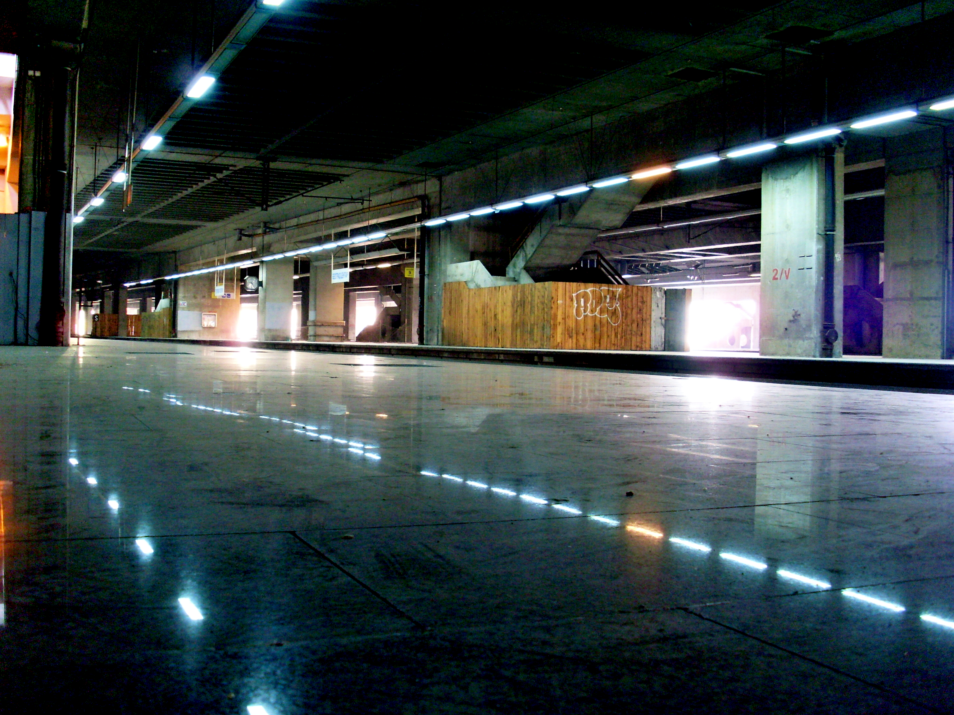 Belgrade Prokop railway station